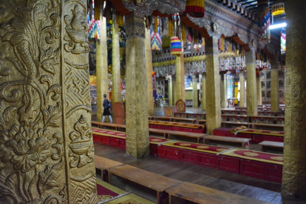 3 Inside the palace in Punakha (Butan)